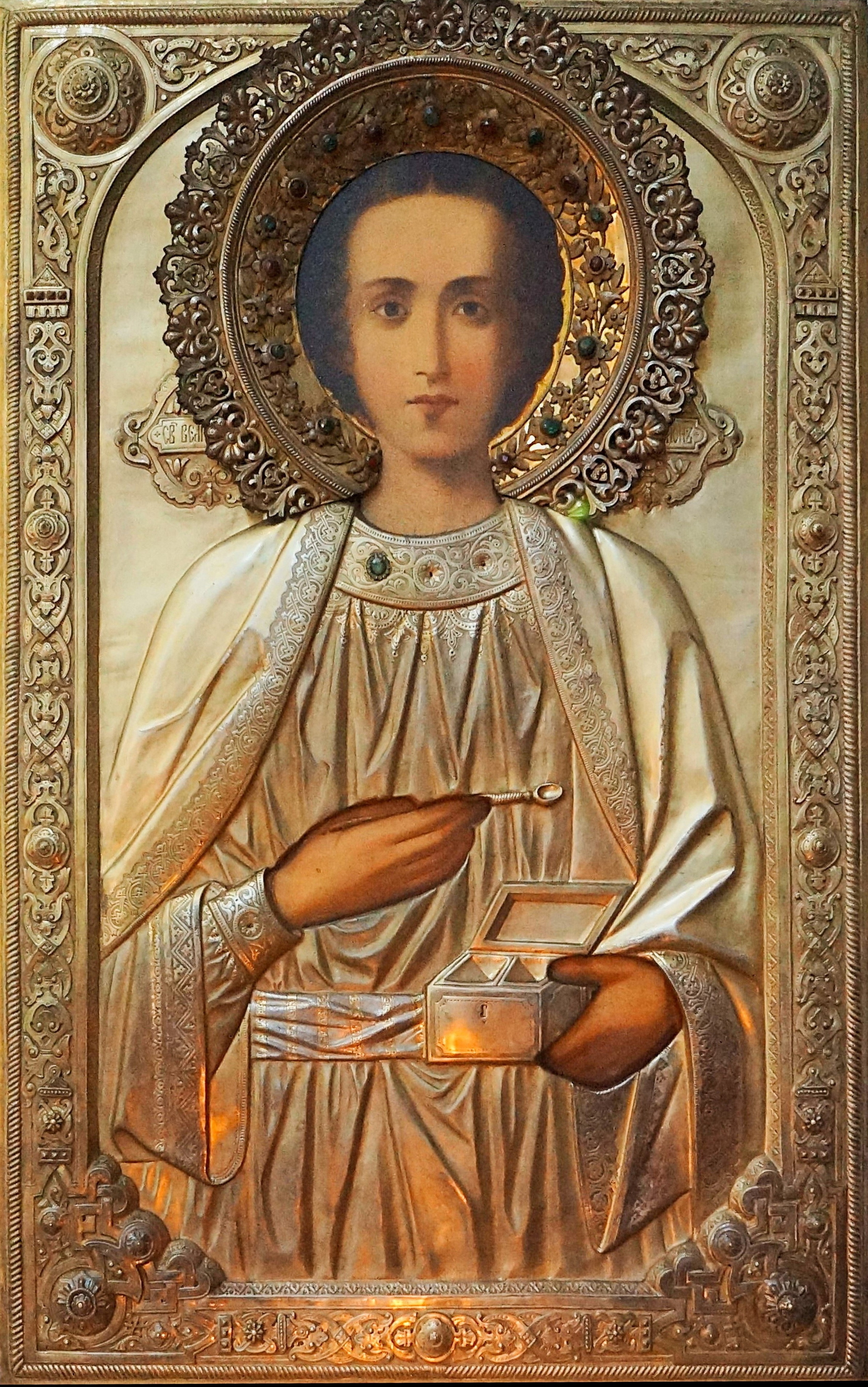 Icon of St.Panteleimon, in the cathedral of the Dormition, Yaroslavl, Russia